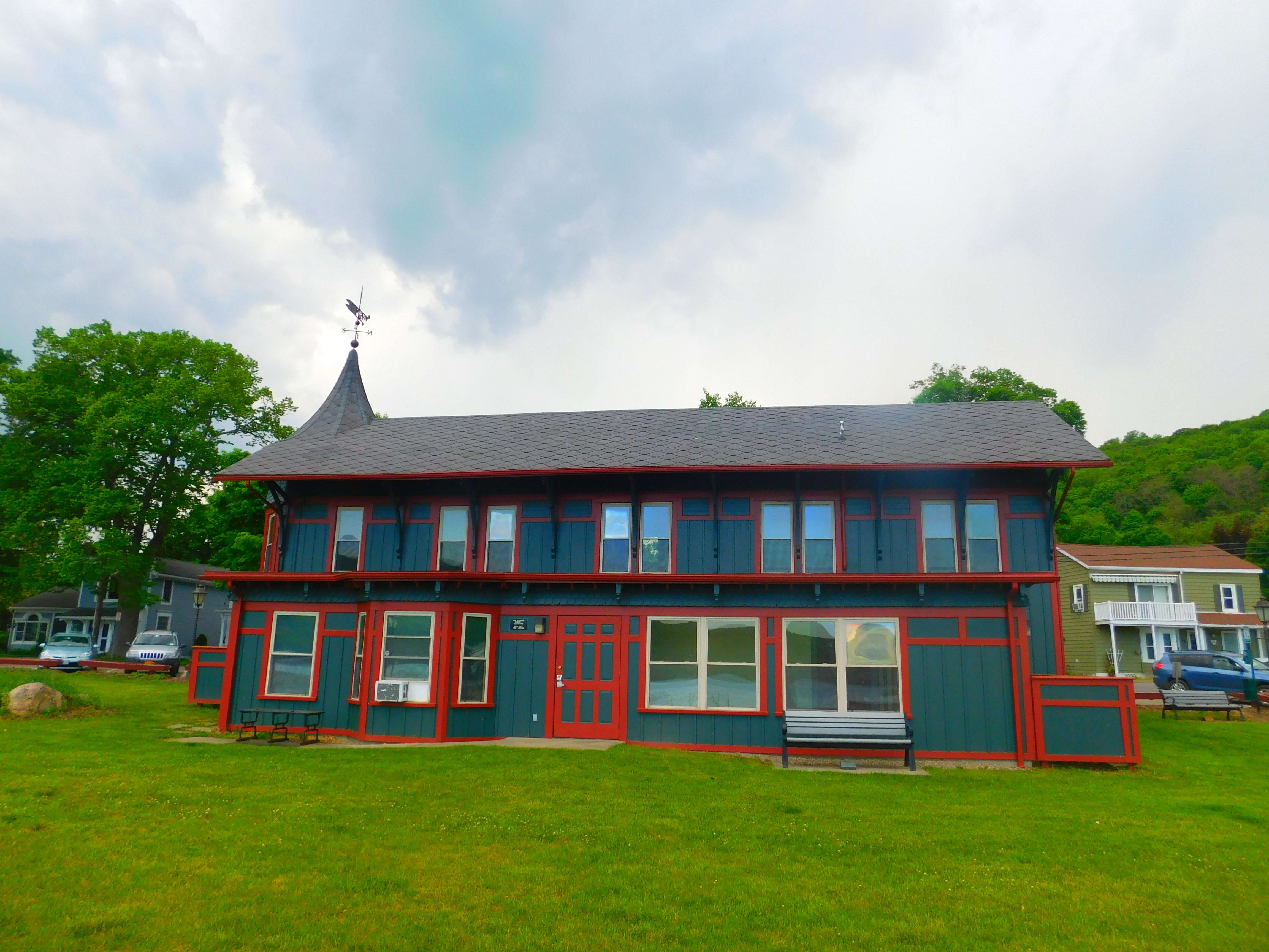 Hammondsport, New York's depot for the Bath and Hammondsport Railroad in June 2016.